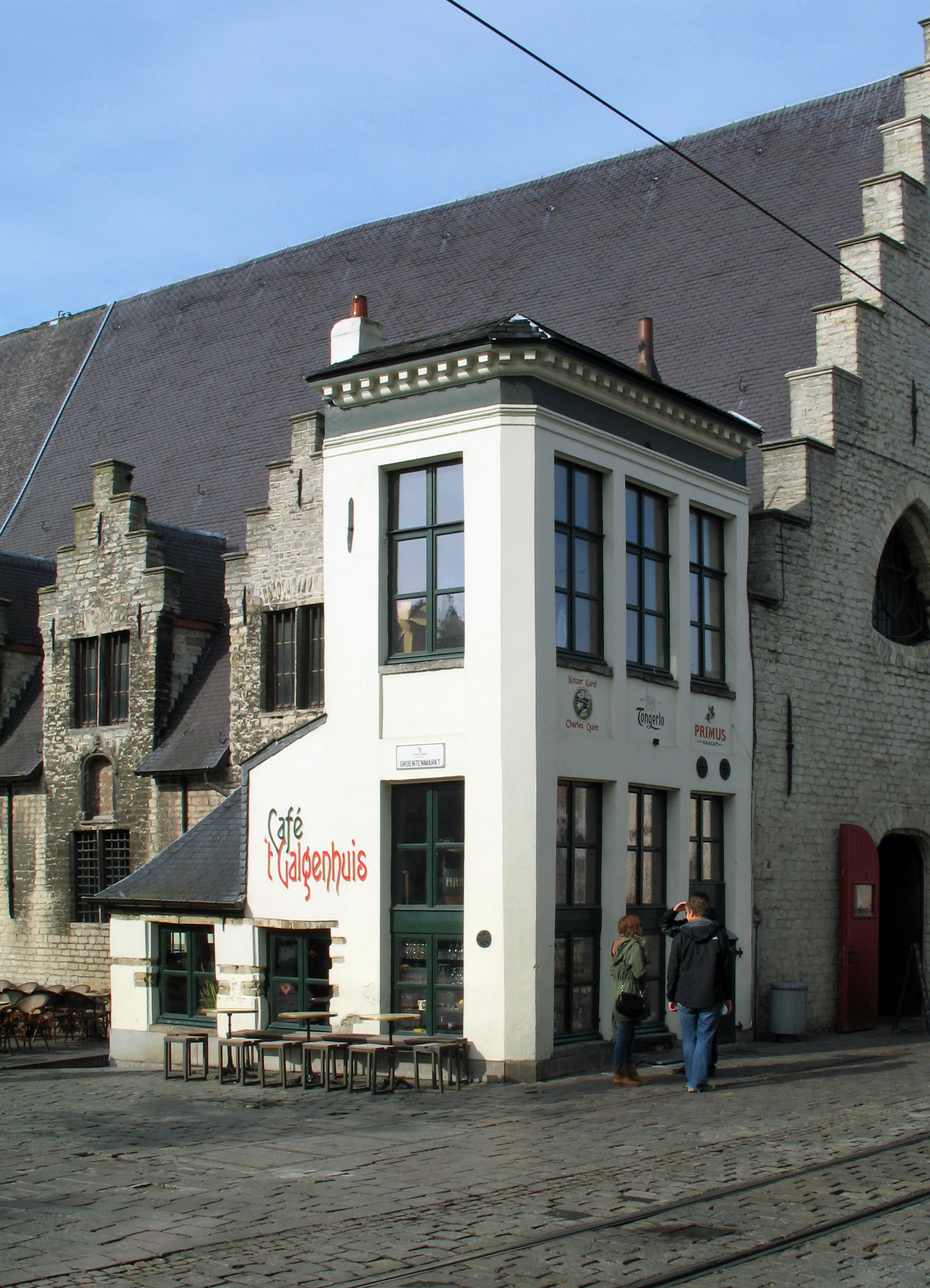 Ghent (Belgium): the Galgenhuis, near the Groot Vleeshuis